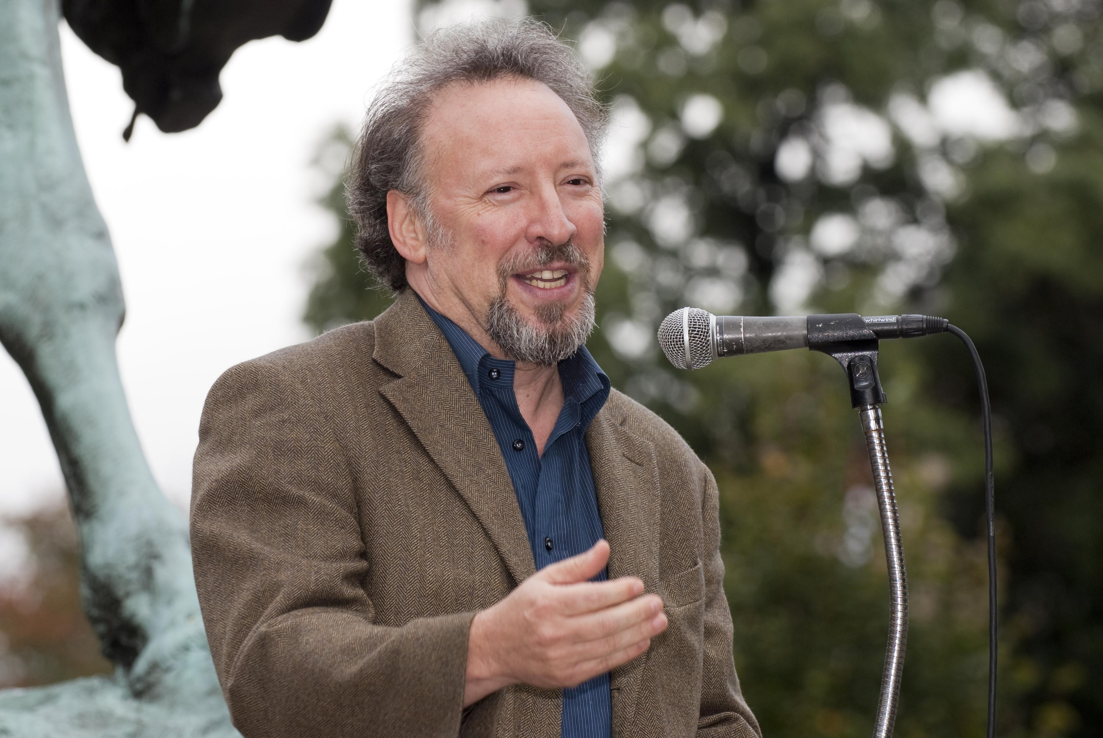 Peter Kornbluh speaking outside, likely at an Institute for Policy Studies event